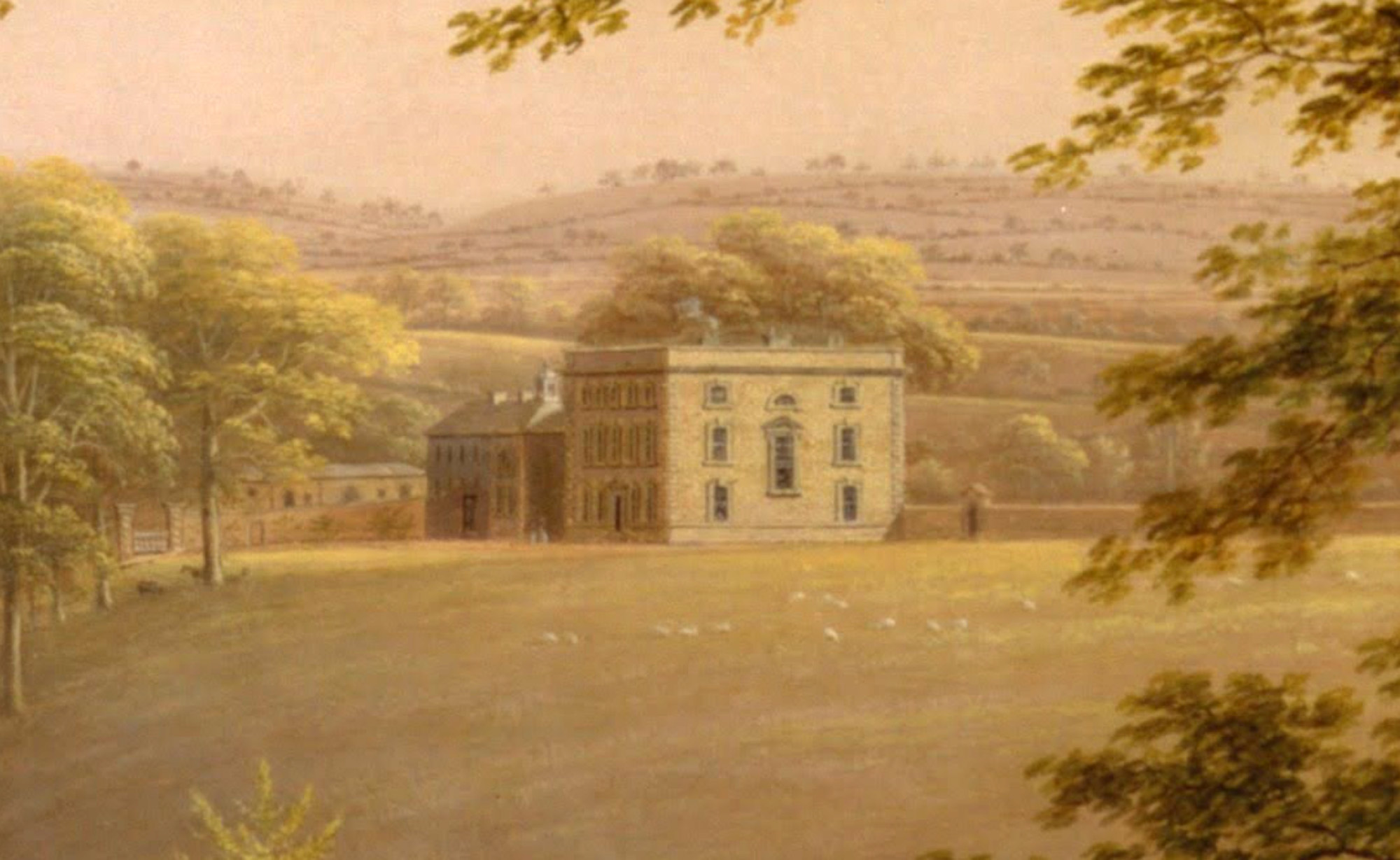 Easby Hall near Richmond circa 1800